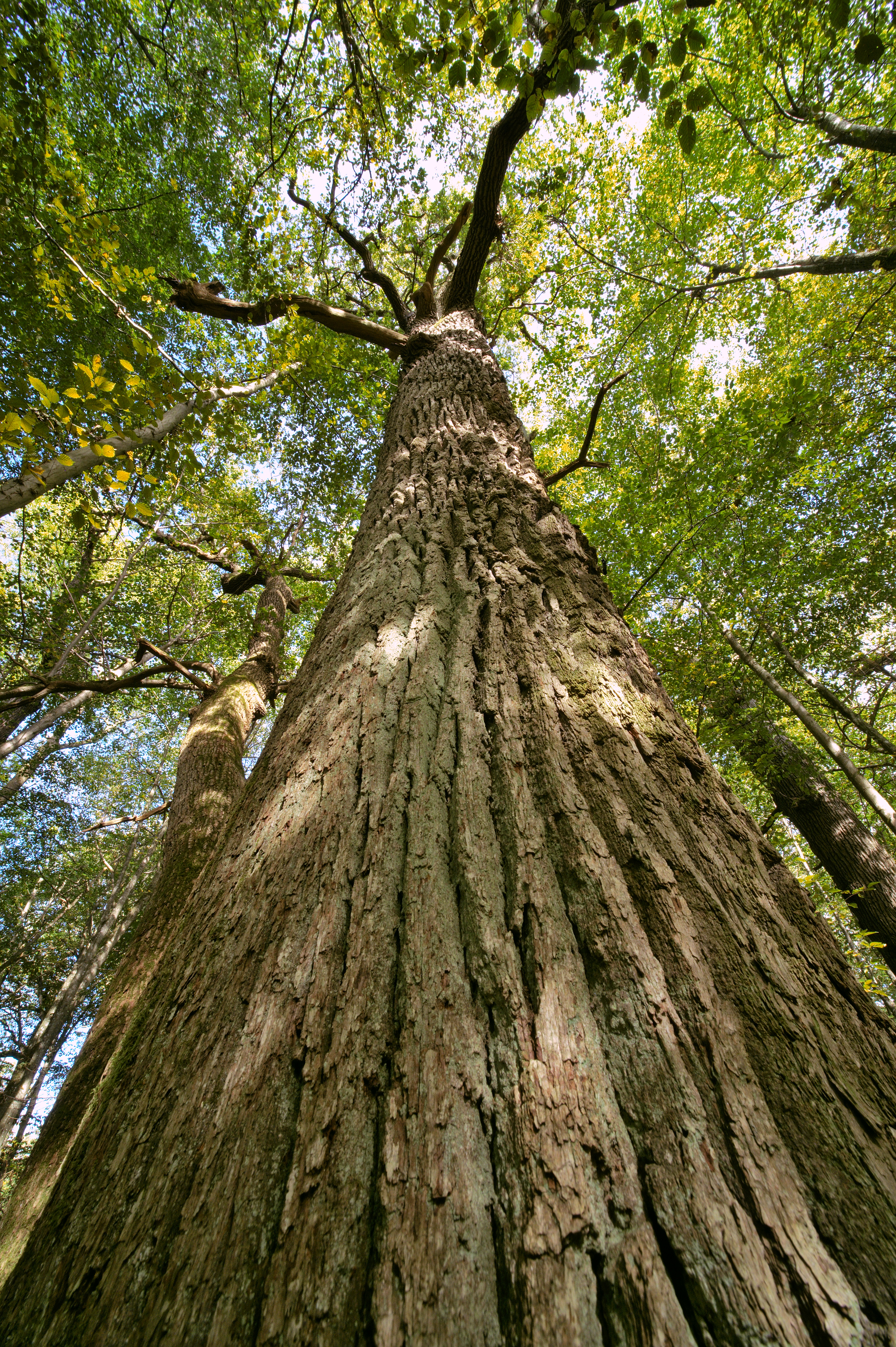 One of the about 50 very old oaks in the monastery forst Maria Eich, Planegg, Germany